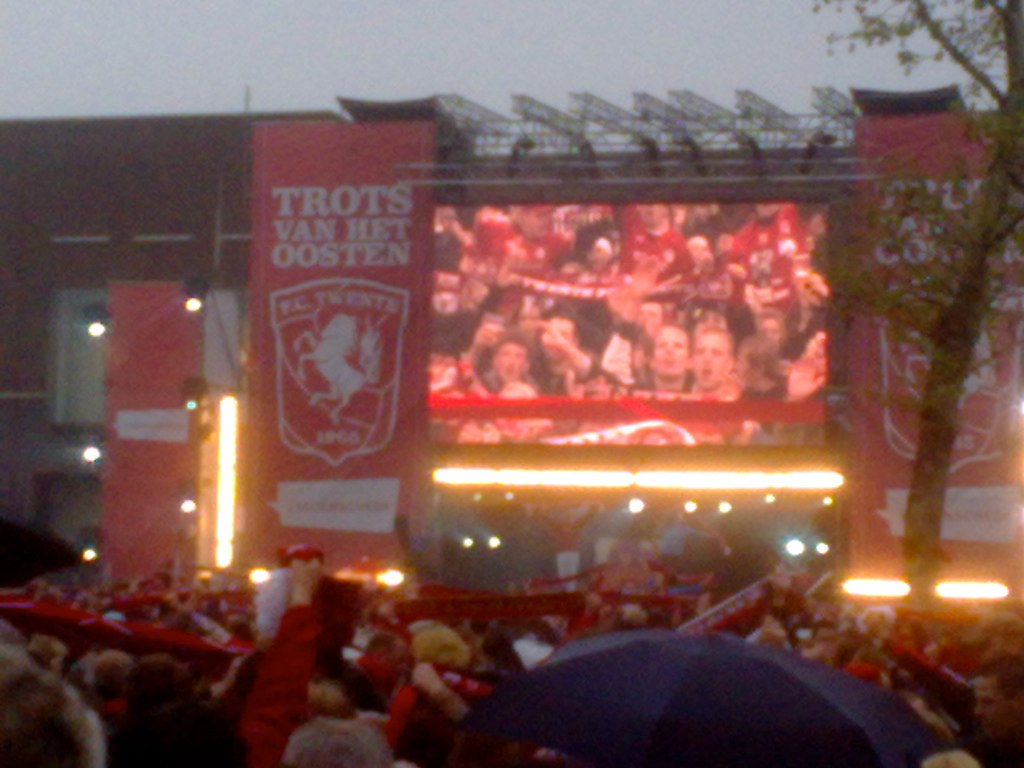 Today 2'nd May 2010, Fc Twente, from Enschede, became champion of the Netherlands. Next year "we" will be playing Champions League!! This is the celebration at the centre of Enschede directly after the match.